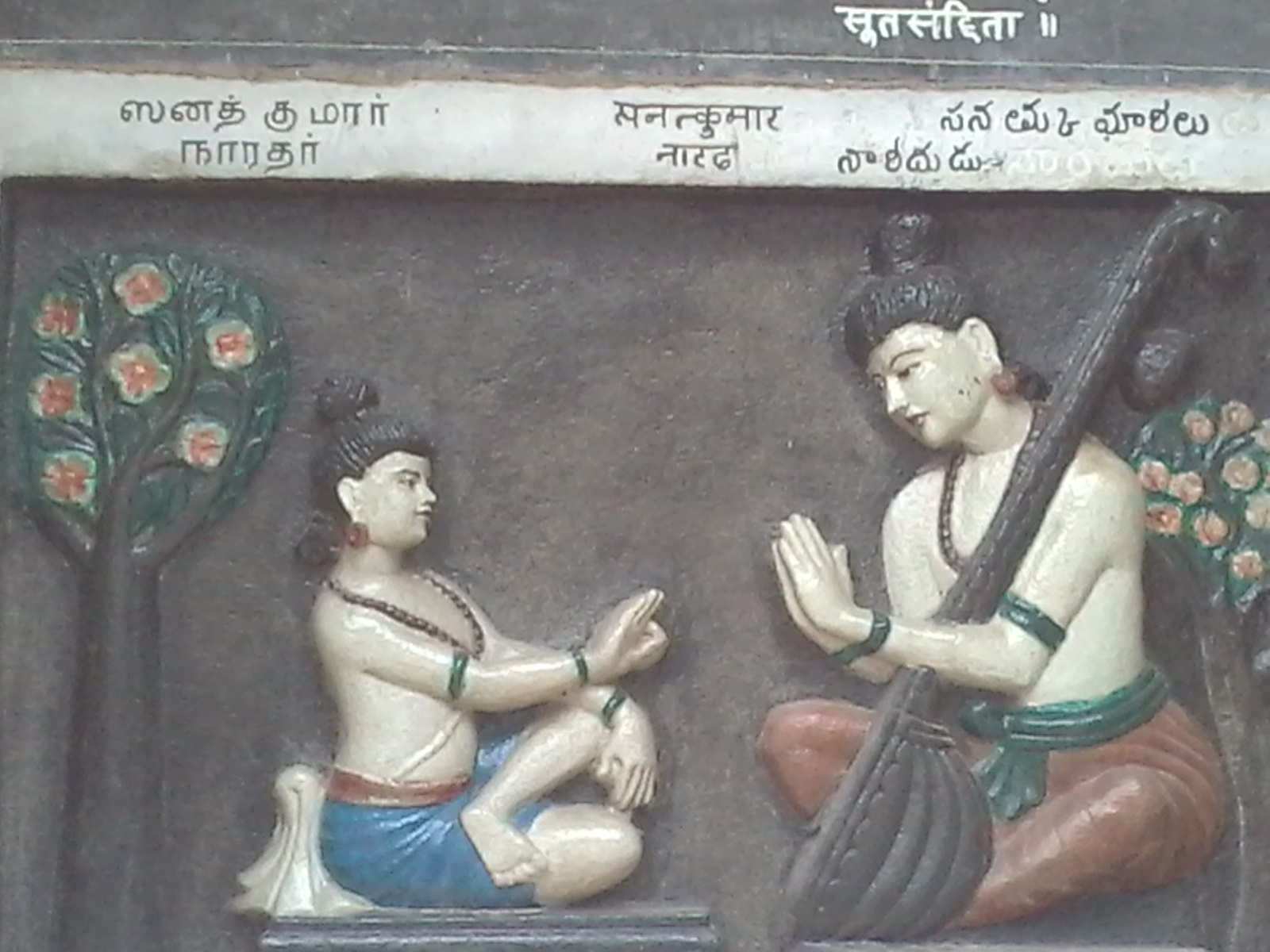 Sage Sanathkumar teaches Narada muni